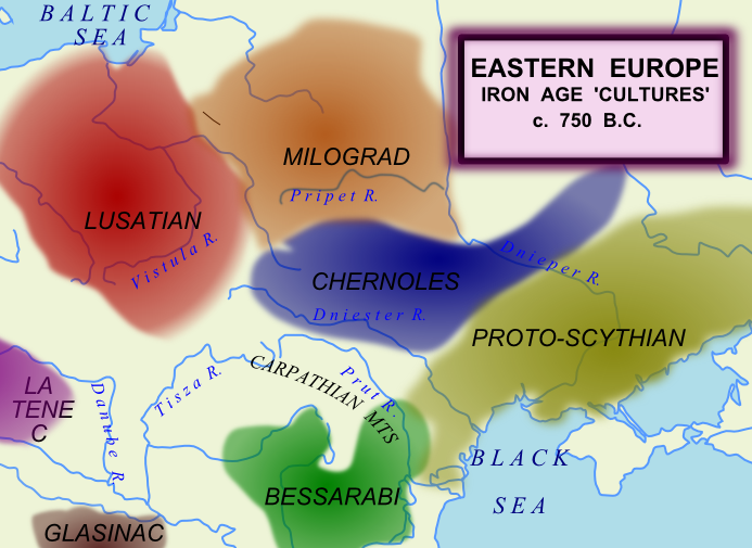 Eastern and Central Europe around 750 BC. Created by Slovenski Volk based on information and maps from Mallory, James P.; Adams, Douglas Q. (1997), Encyclopedia of Indo-European Culture, Taylor & Francis, ISBN 1884964982.